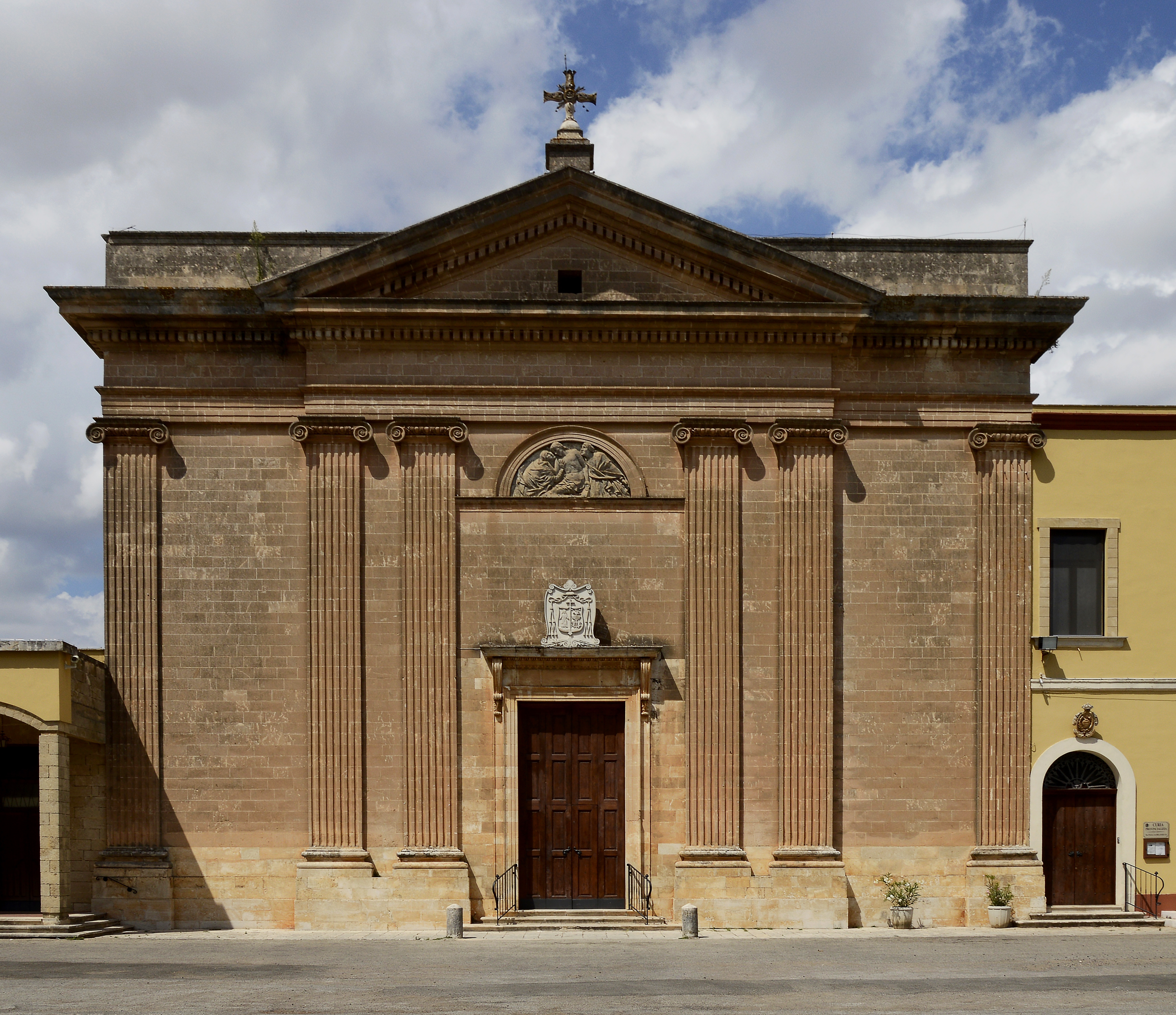 Parrocchia San Paolo della Croce